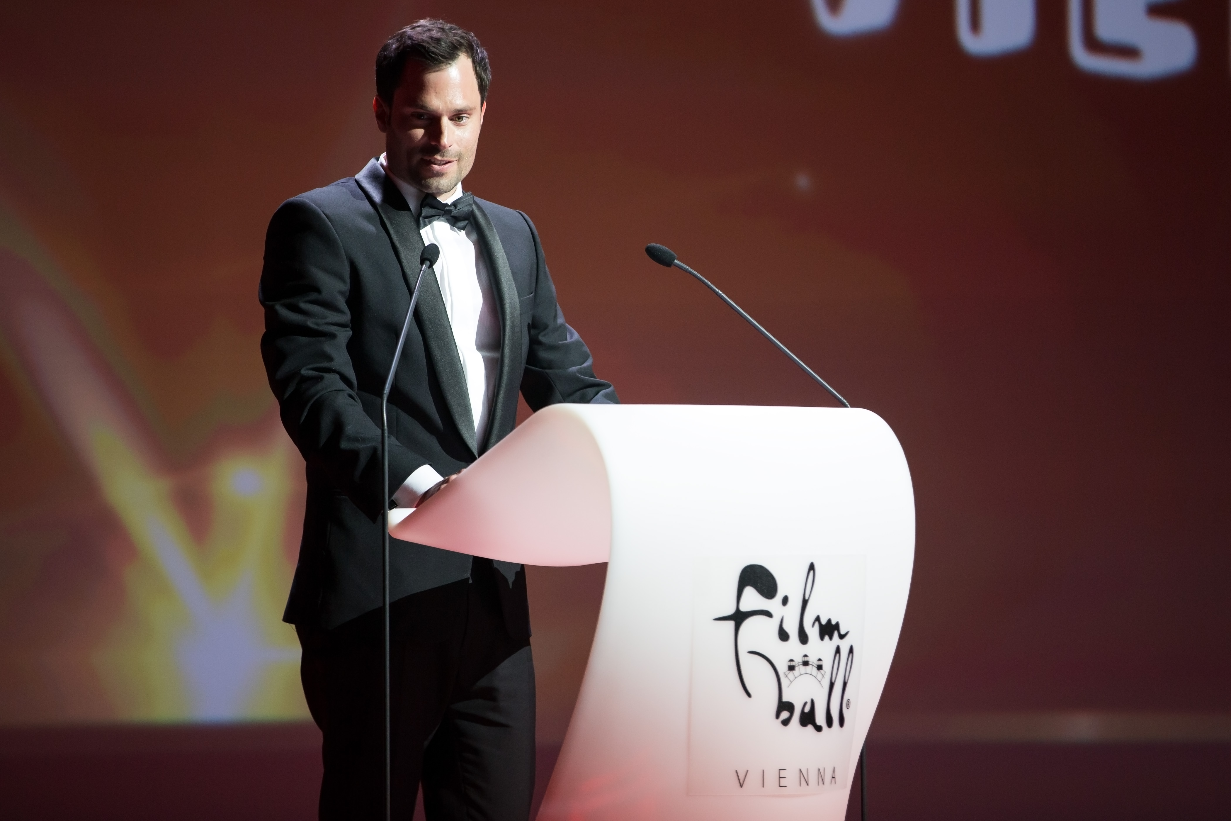 Peter Windhofer, recieving the Vienna Film Award, at Filmball Vienna 2016 at Rathaus, Vienna, Austria.